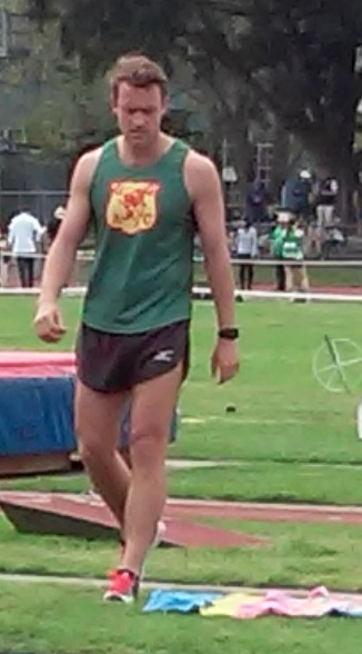 Hamish Nelson 6